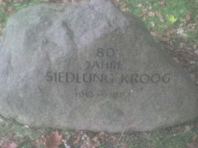 Memorial of the settlement Kiel-Kroog